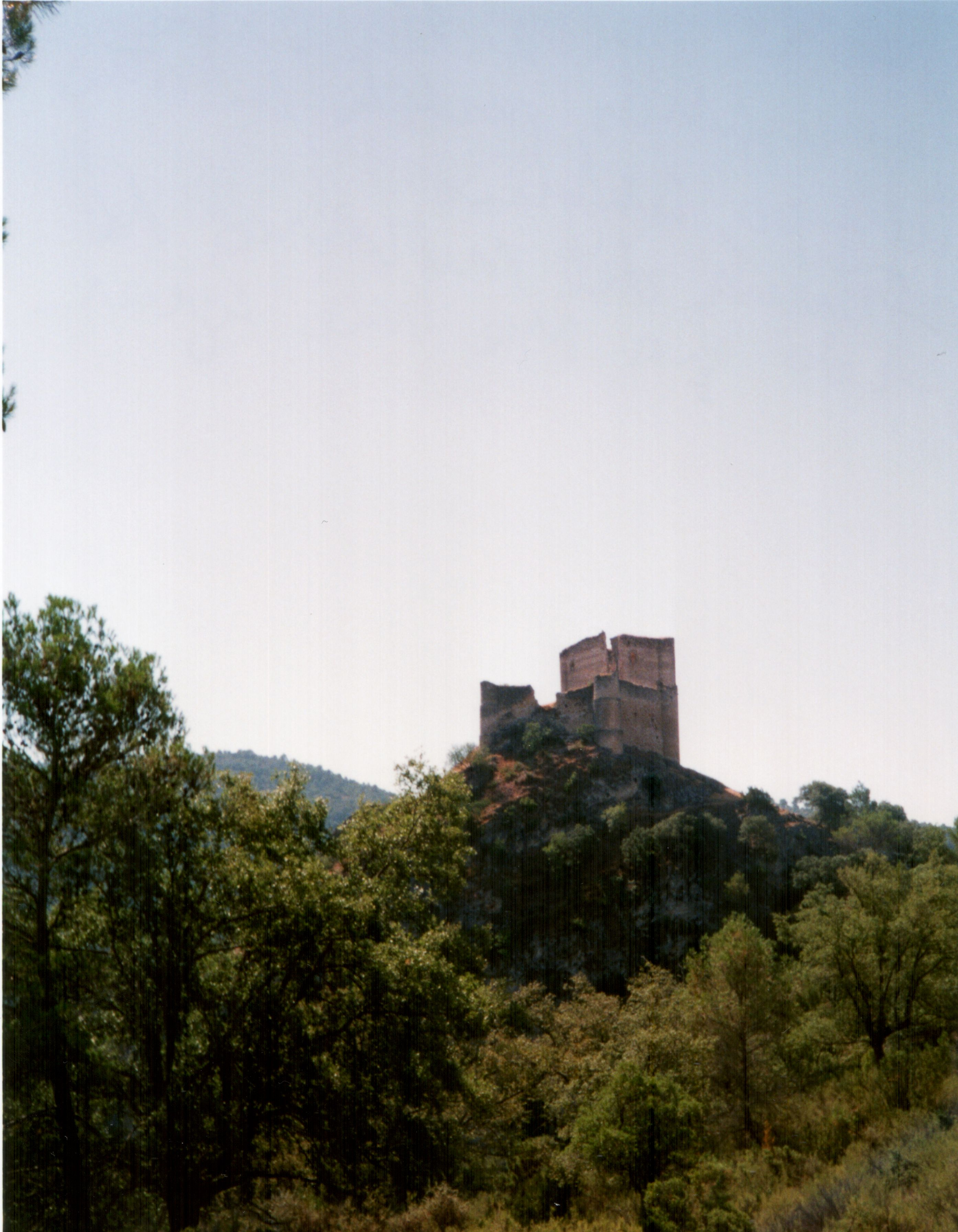 Castle of Anguix, Sayatón, Guadalajara (Spain).